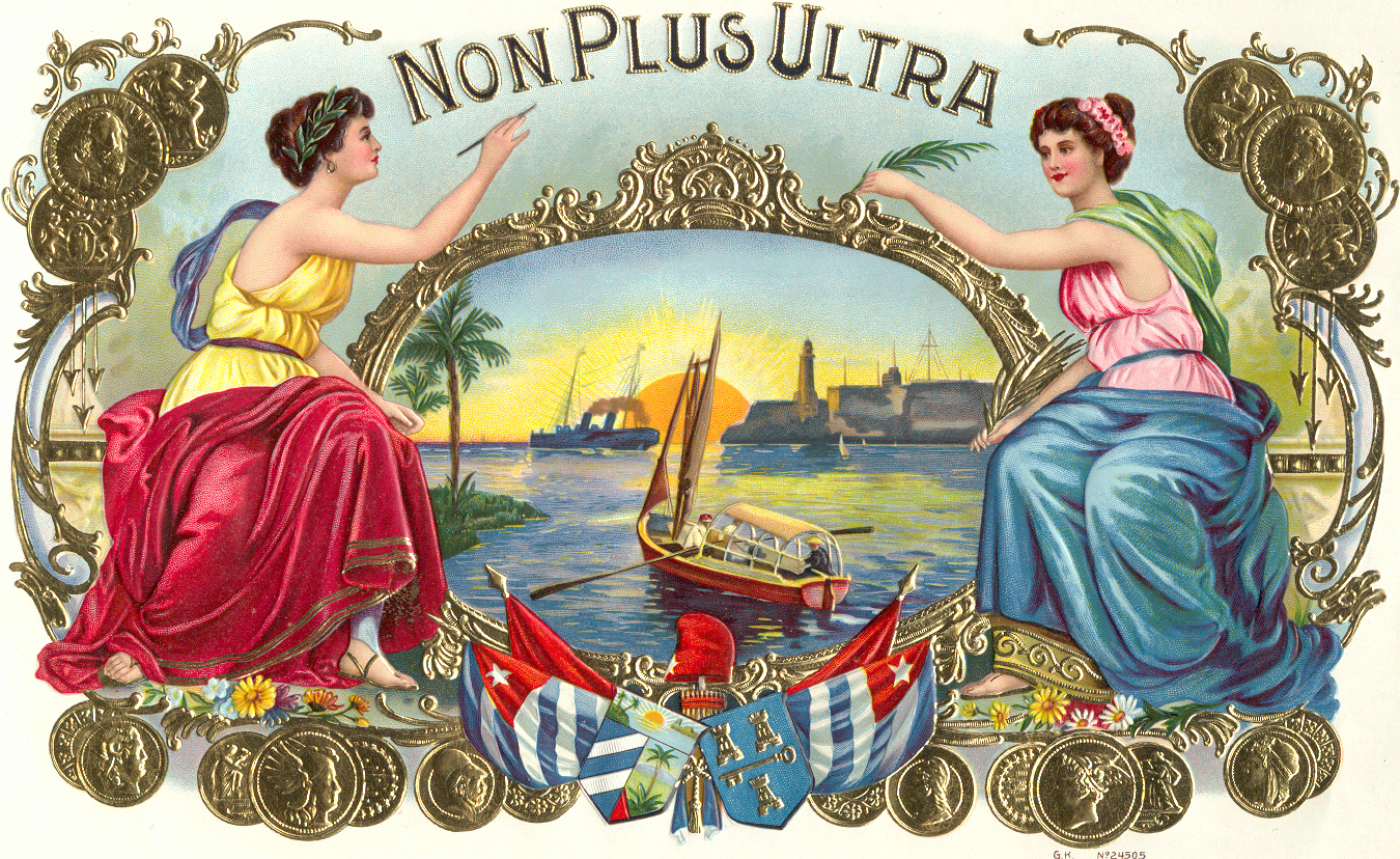 Lithograph, printed by Bros. Klingenberg, about 1907.